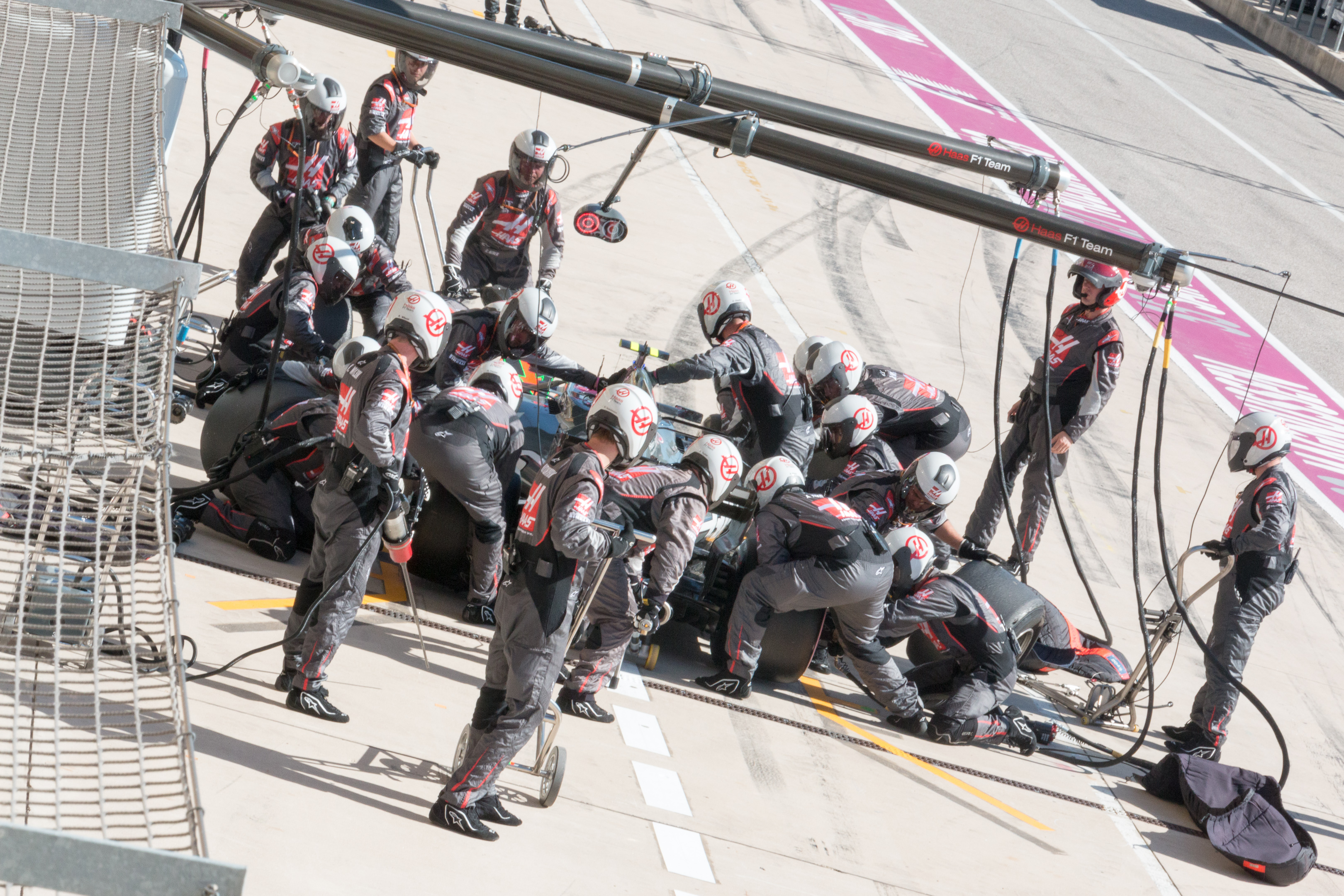 USGP Austin Oct 2017